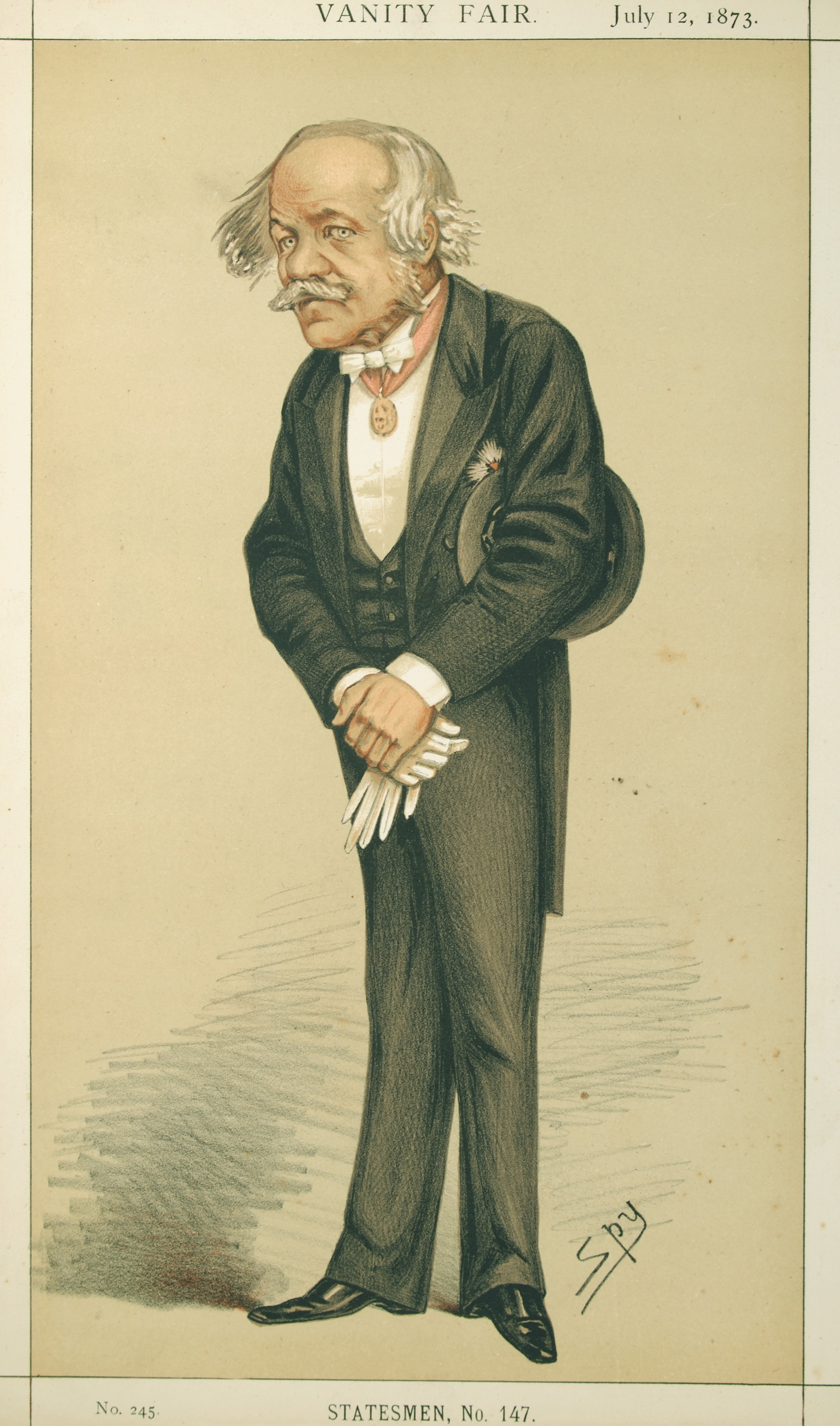 Statesmen No.147: Caricature of Sir Henry Rawlinson, 1st Baronet KCB. Caption reads: "Our Eastern Policy"